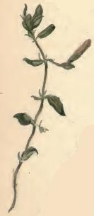 Stainton’s Natural History of the Tineina (1855–1873): Coleophora ochrea sprig of Helianthemum chamaecistus with mined leaves and a larva-case attached